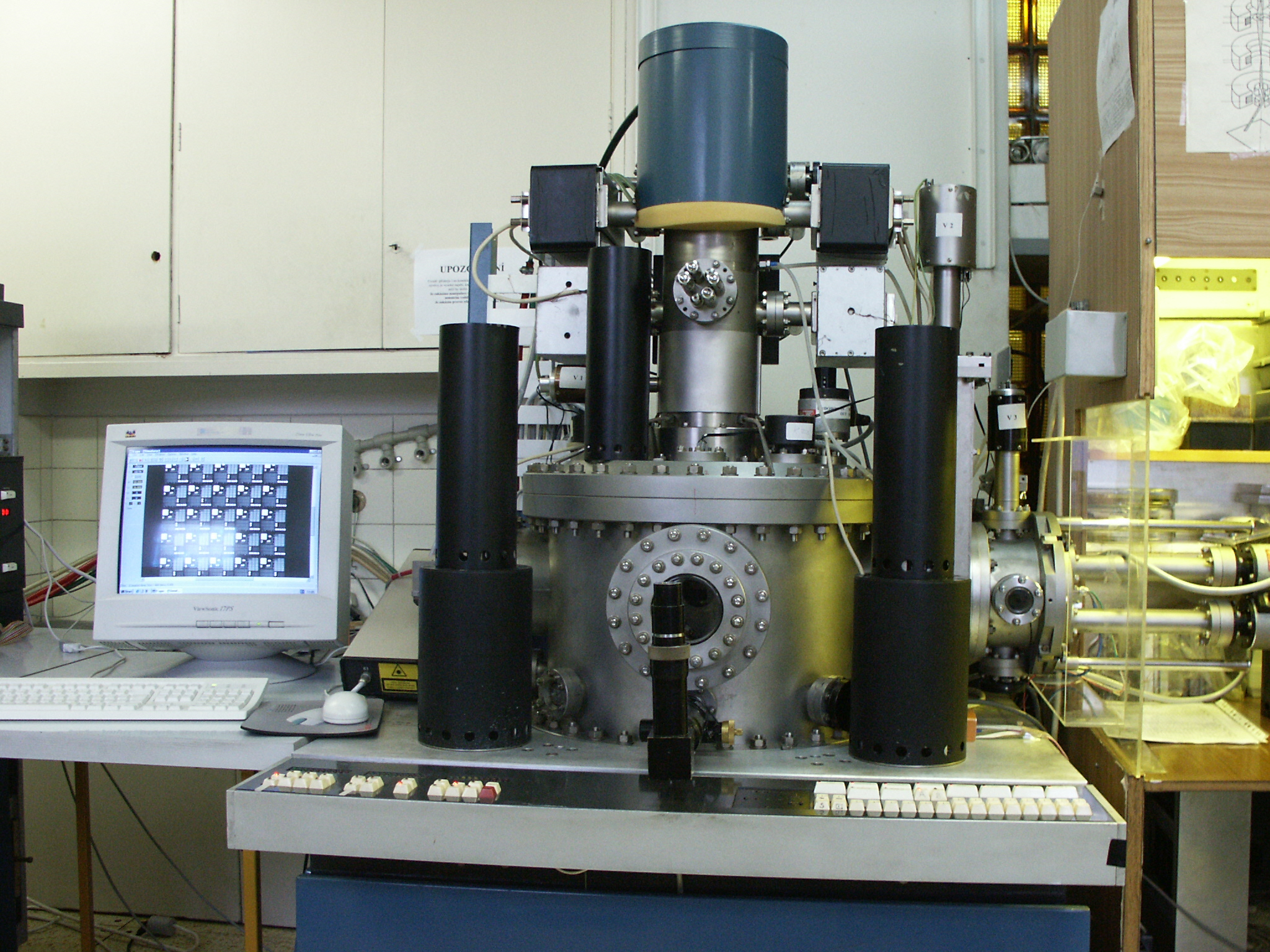 Electron lithograph